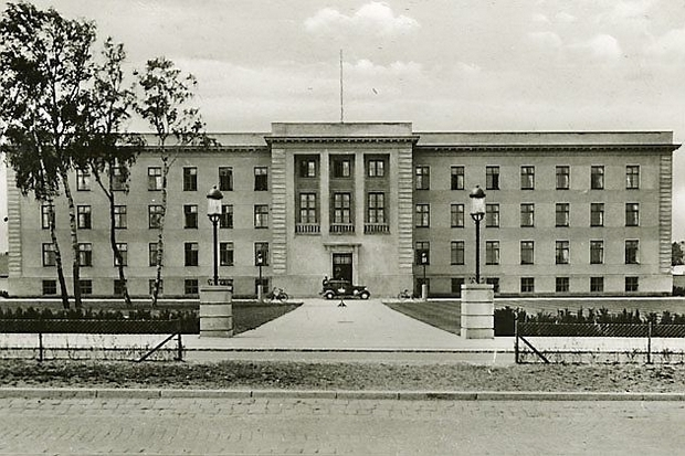 Gentofte Town Hall in Charlottenlund, Denmark